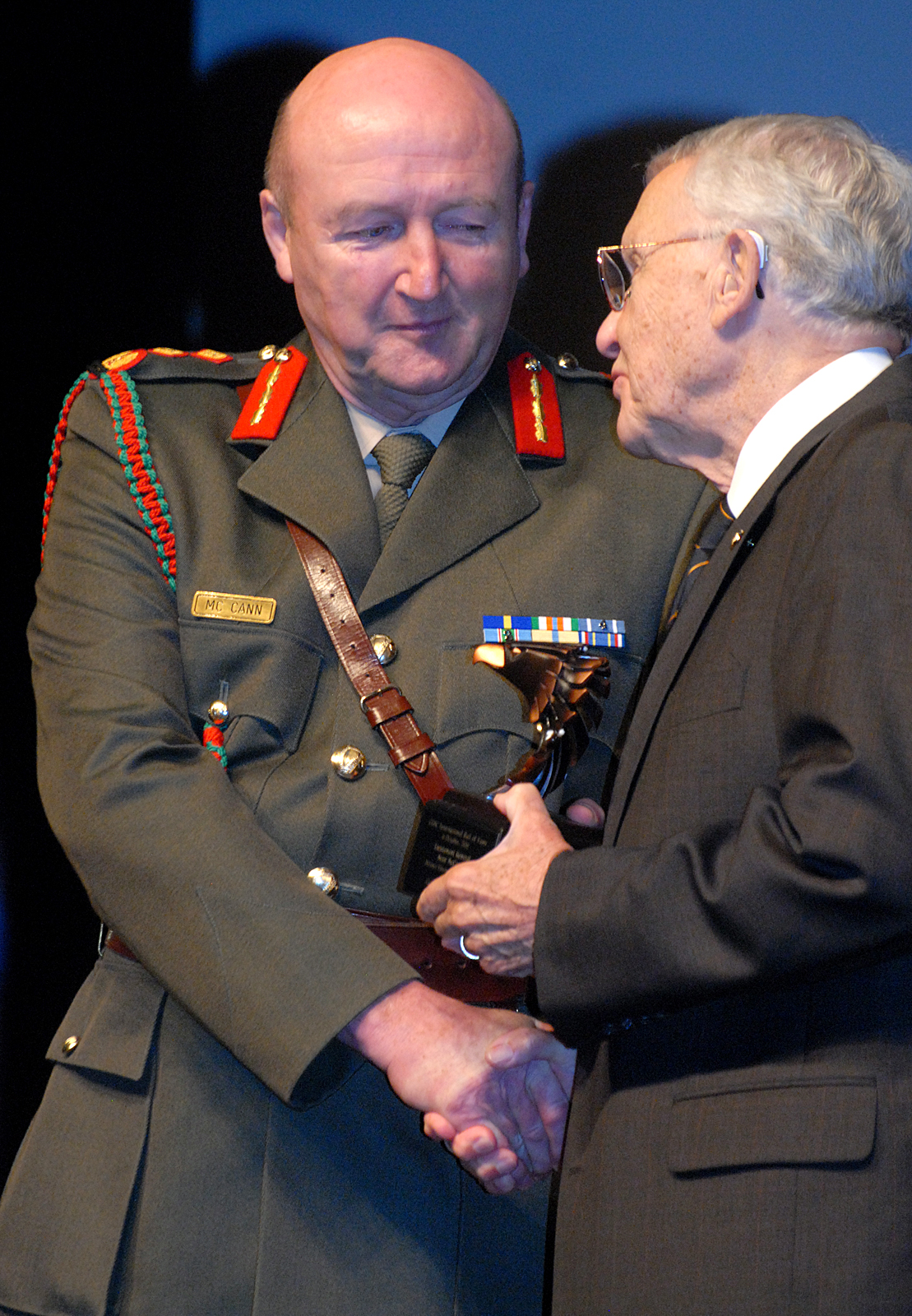 Lt. Gen. Sean McCann, chief of staff of the Irish Defence Forces, receives a gift from retired Lt. Gen. Robert Arter, Command and General Staff College Foundation chairman, during the International Hall of Fame induction ceremony Oct. 6 at the Lewis and Clark Center.